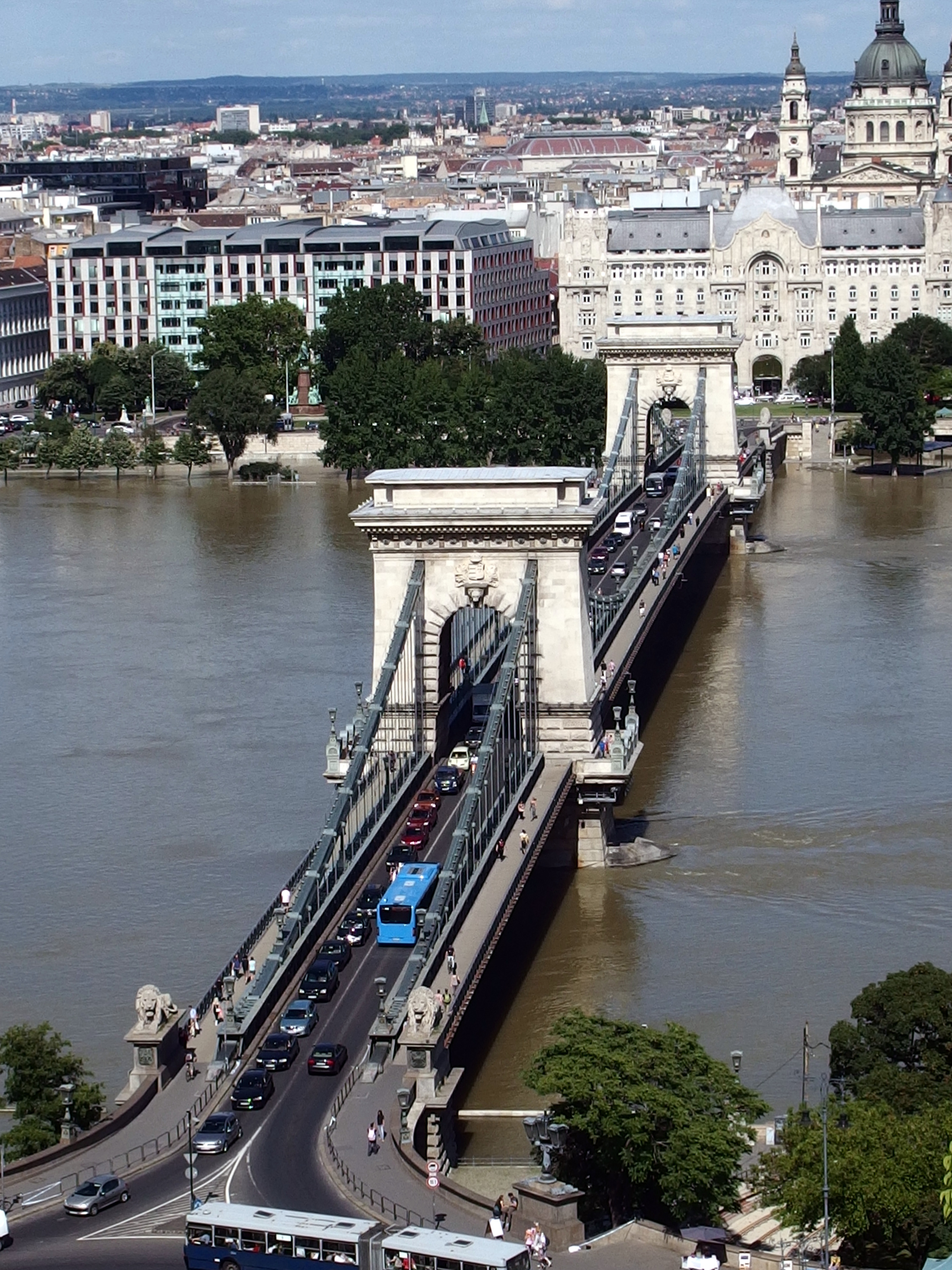 2013-06-13 in Budapest